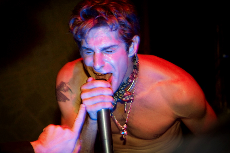 Jane's Addiction_14_Centro_16-07-09